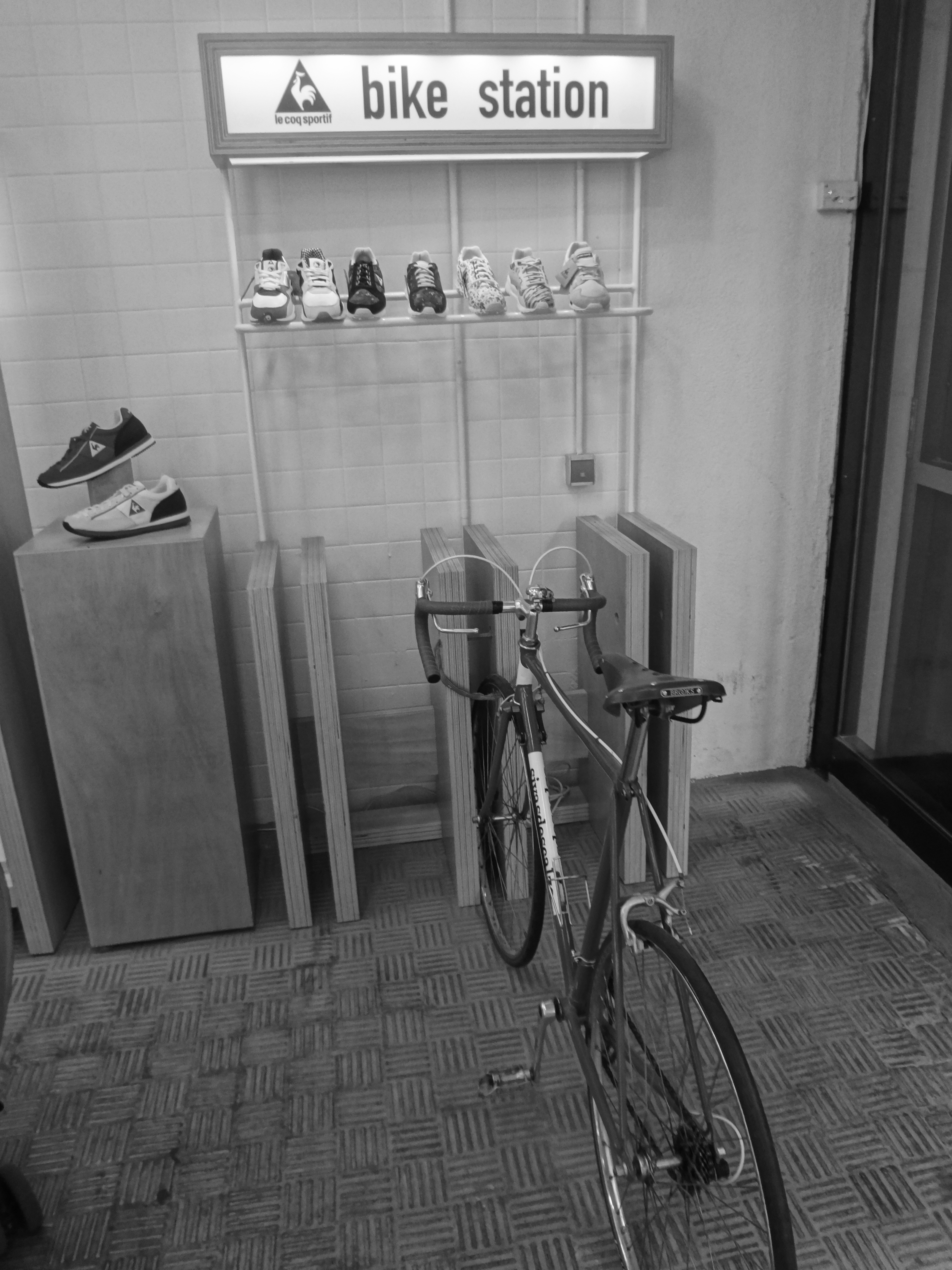 Photography by David Adam Kess Madrid, Spain Author, DAVID ADAM KESS (near the Bilbao Metro, Madrid) Photographed by David Adam Kess